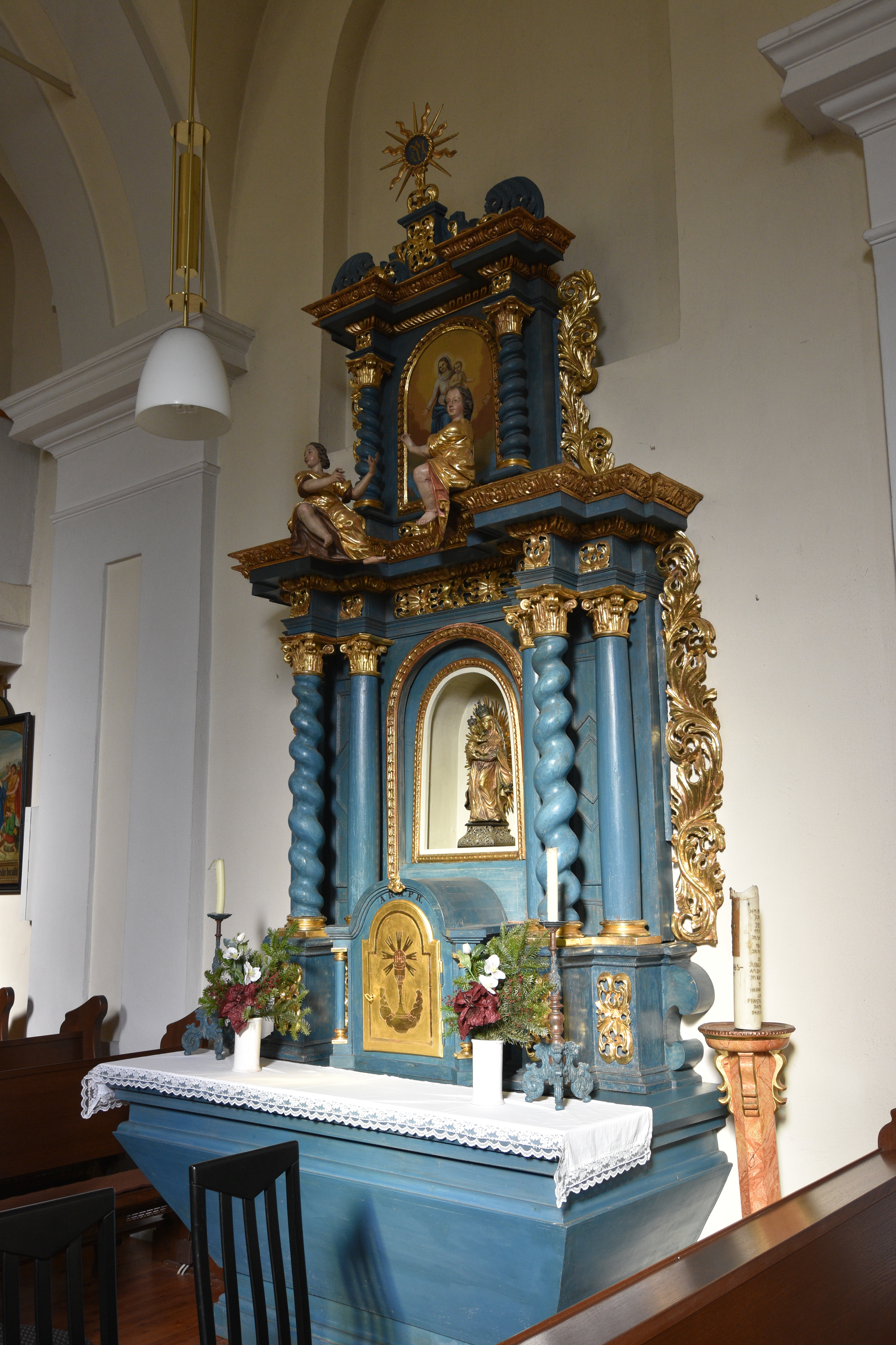 Church Kukmirn Interior